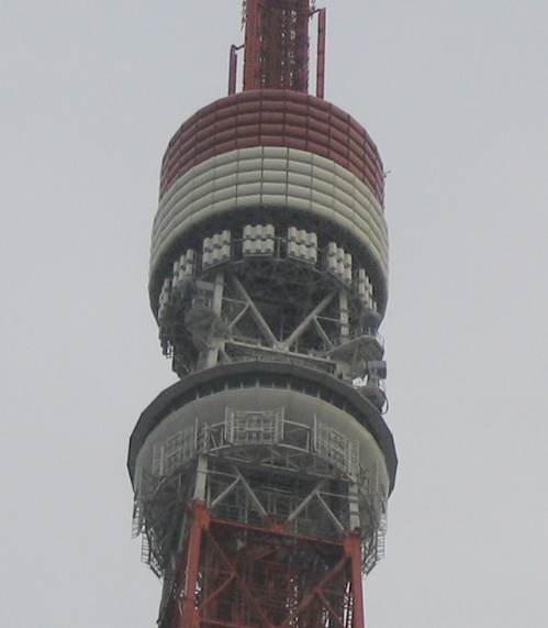 Tokyo Tower - DTV-Antenna